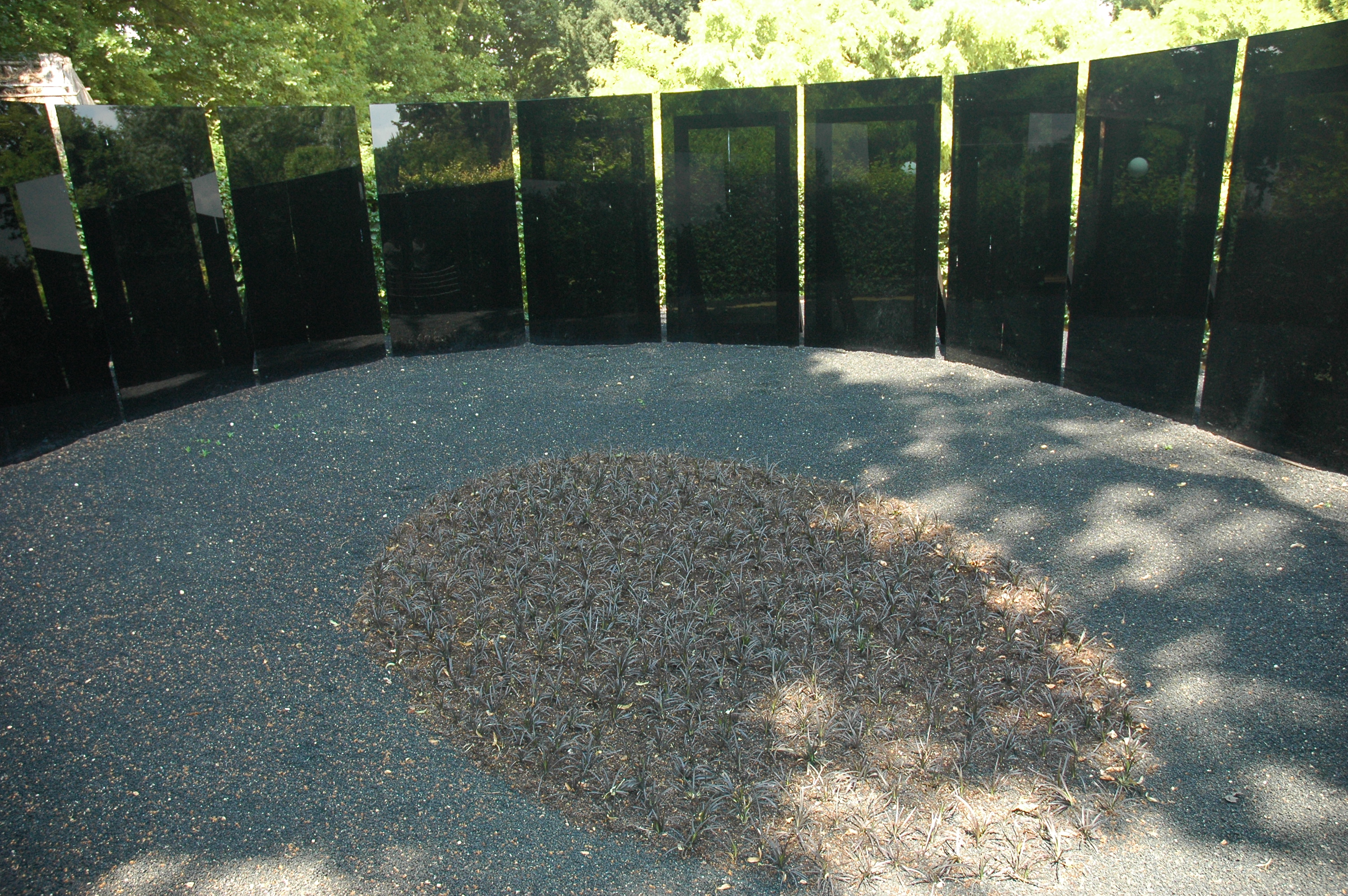 Chaumont-sur-Loire, international garden festival 2009, Apesanteur de la matière, Odile Decq, Peter-J. Baalman